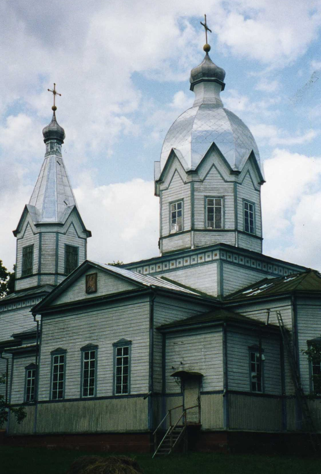 Church in Kobyzhcha, Chernihiv Oblast, Ukraine